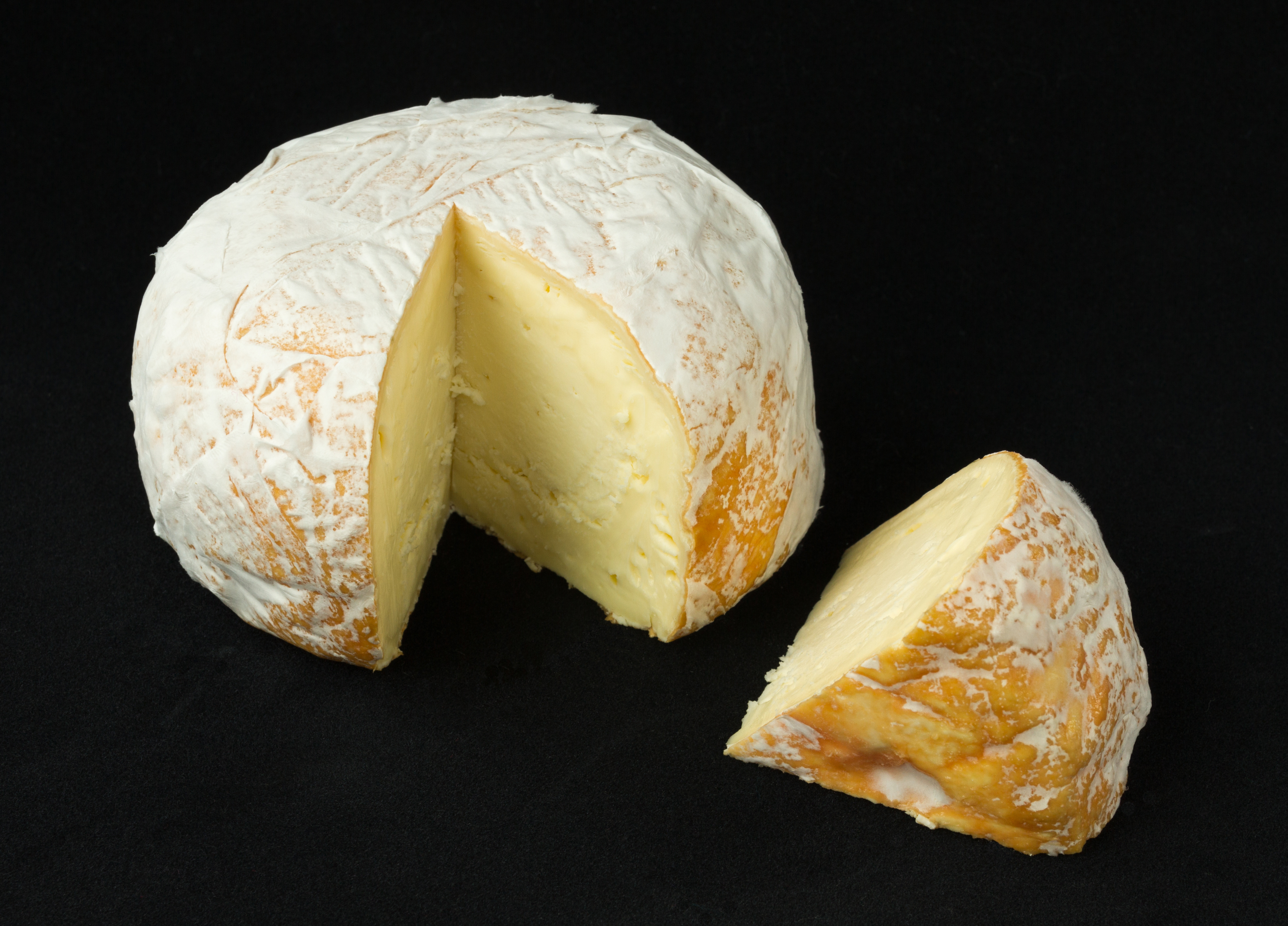 Red Hawk cheese made by Cowgirl Creamery, Point Reyes Station.